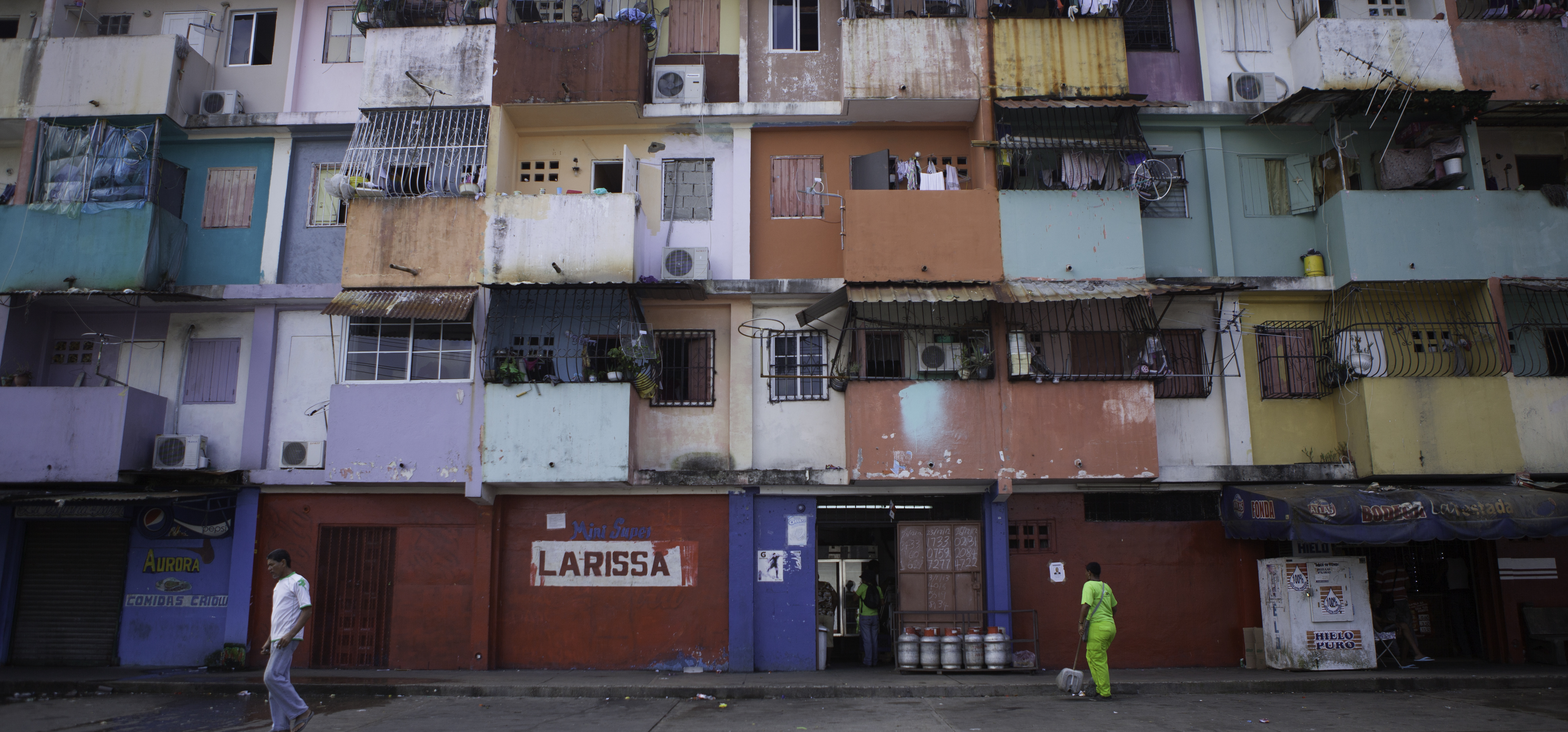 Colorful Apartment blocks, Panama City